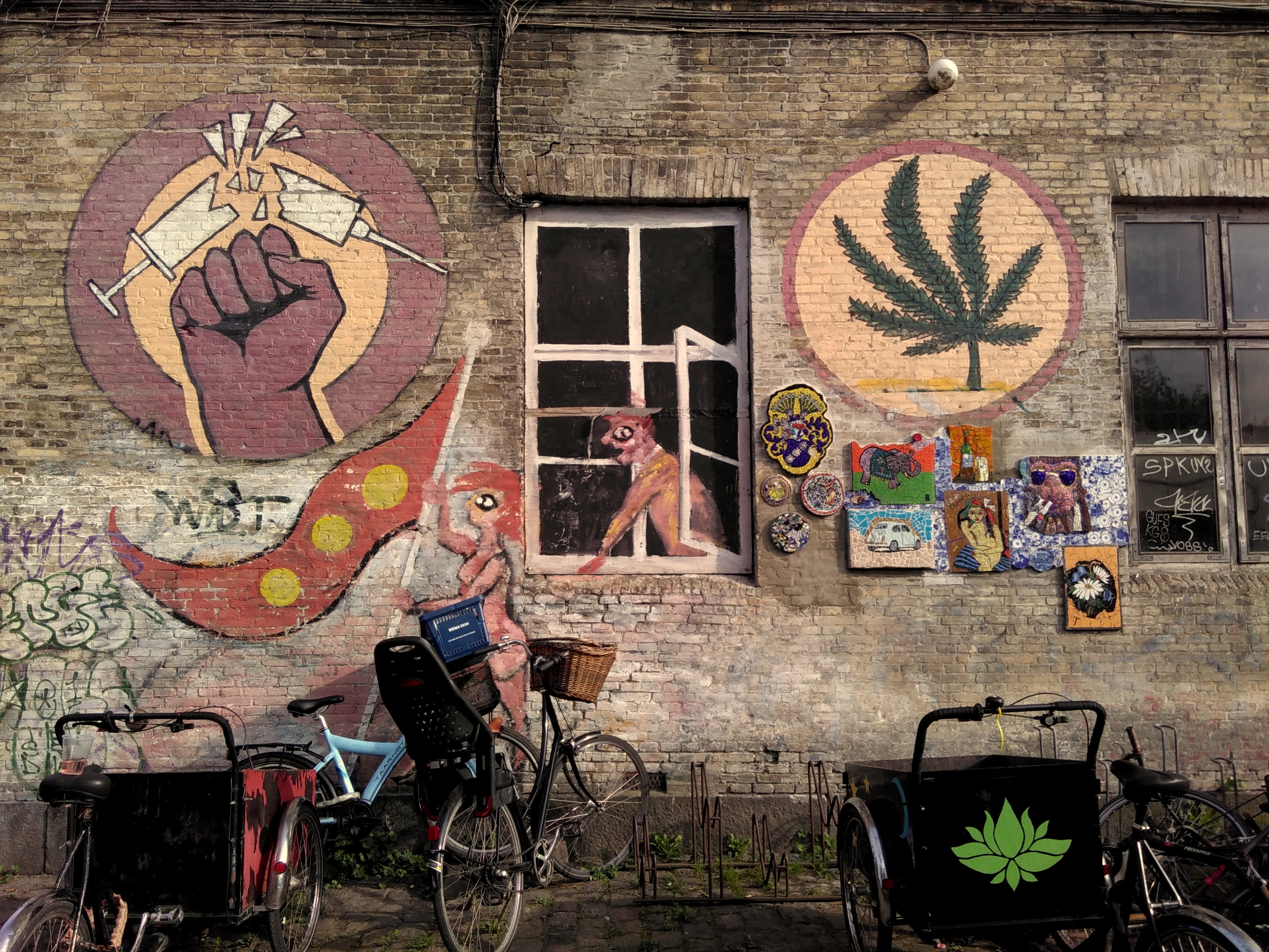 Mural in Christiania. Ironically, on the day this was taken, the town shut down its cannabis sellers.